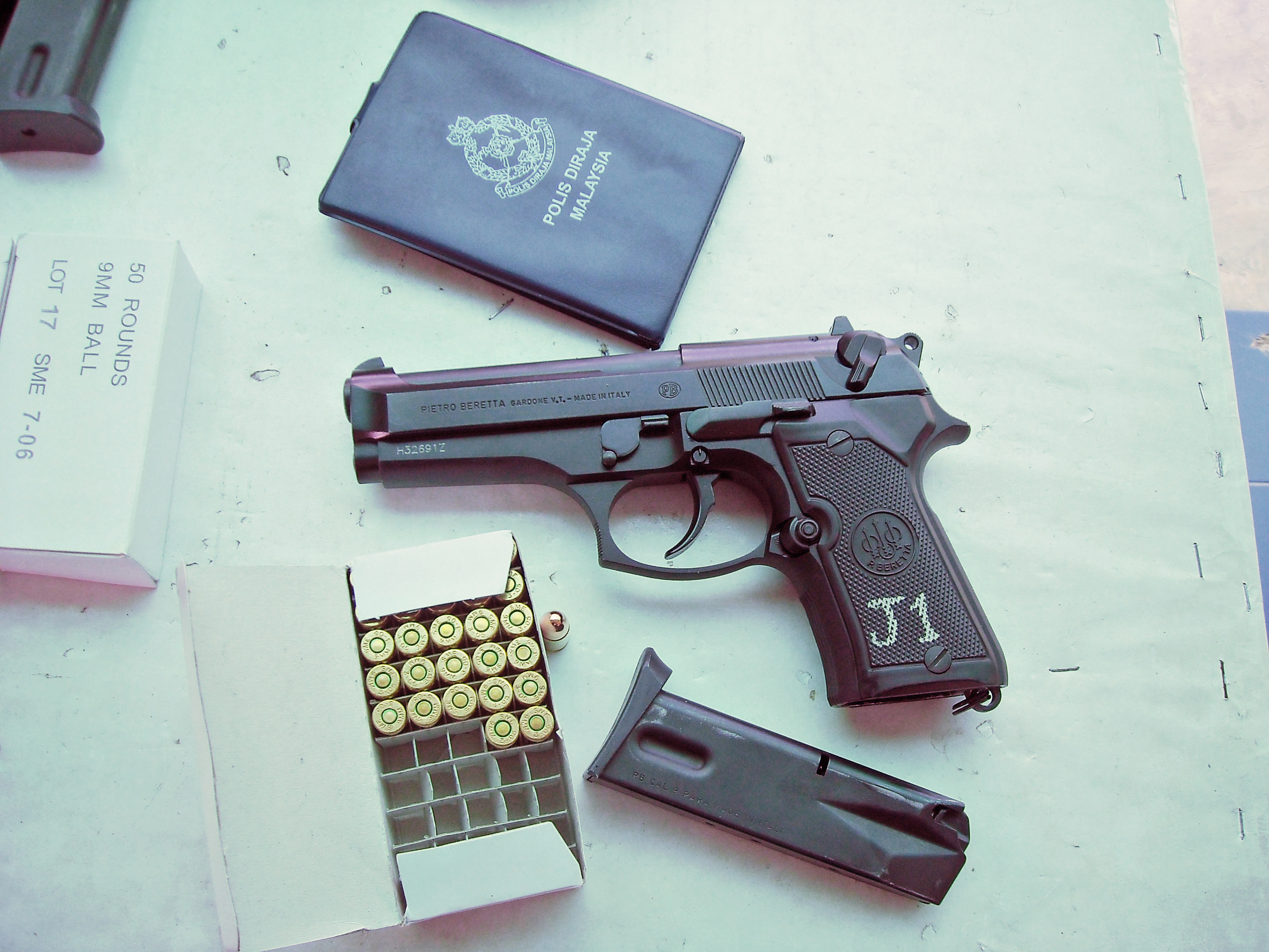 The Italian-made Beretta 92 Compact L 9mm used by Royal Malaysian Police officers.